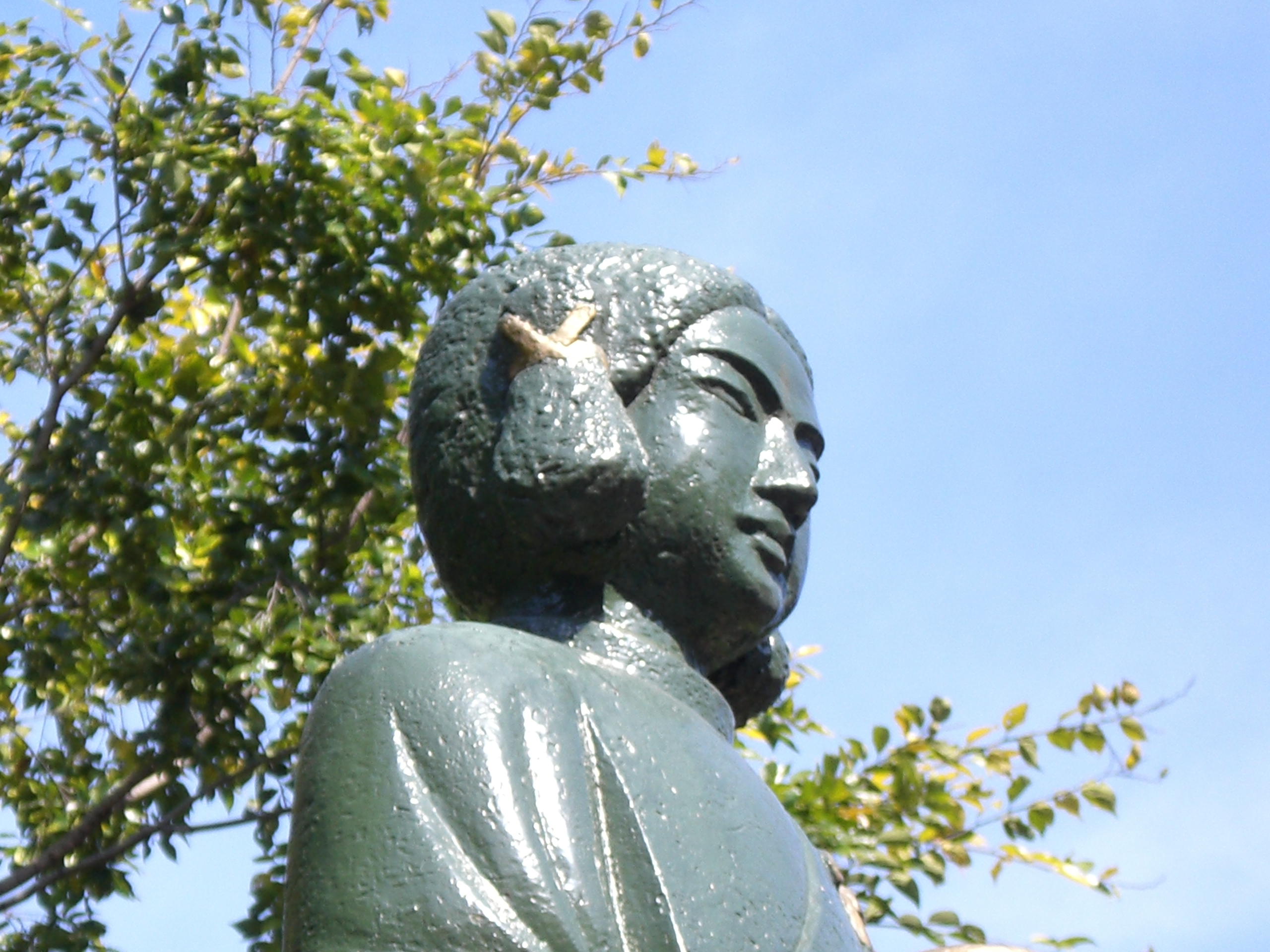 Araiyakushi-temple Prince Shotoku standing figure at : 2005-10-25 by & copyrightholder : Suisui